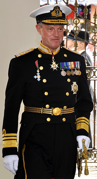 Sir Adrian Johns, Governor of Gibraltar at his swearing in ceremony at the Gibraltar Parliament.